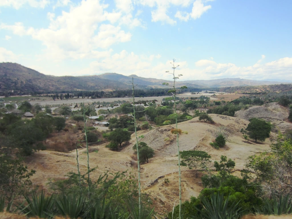 River Vemasse, just north of Vemasse village, East Timor (looking south)